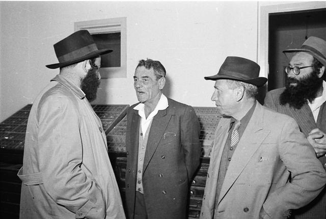 Politics of Israel